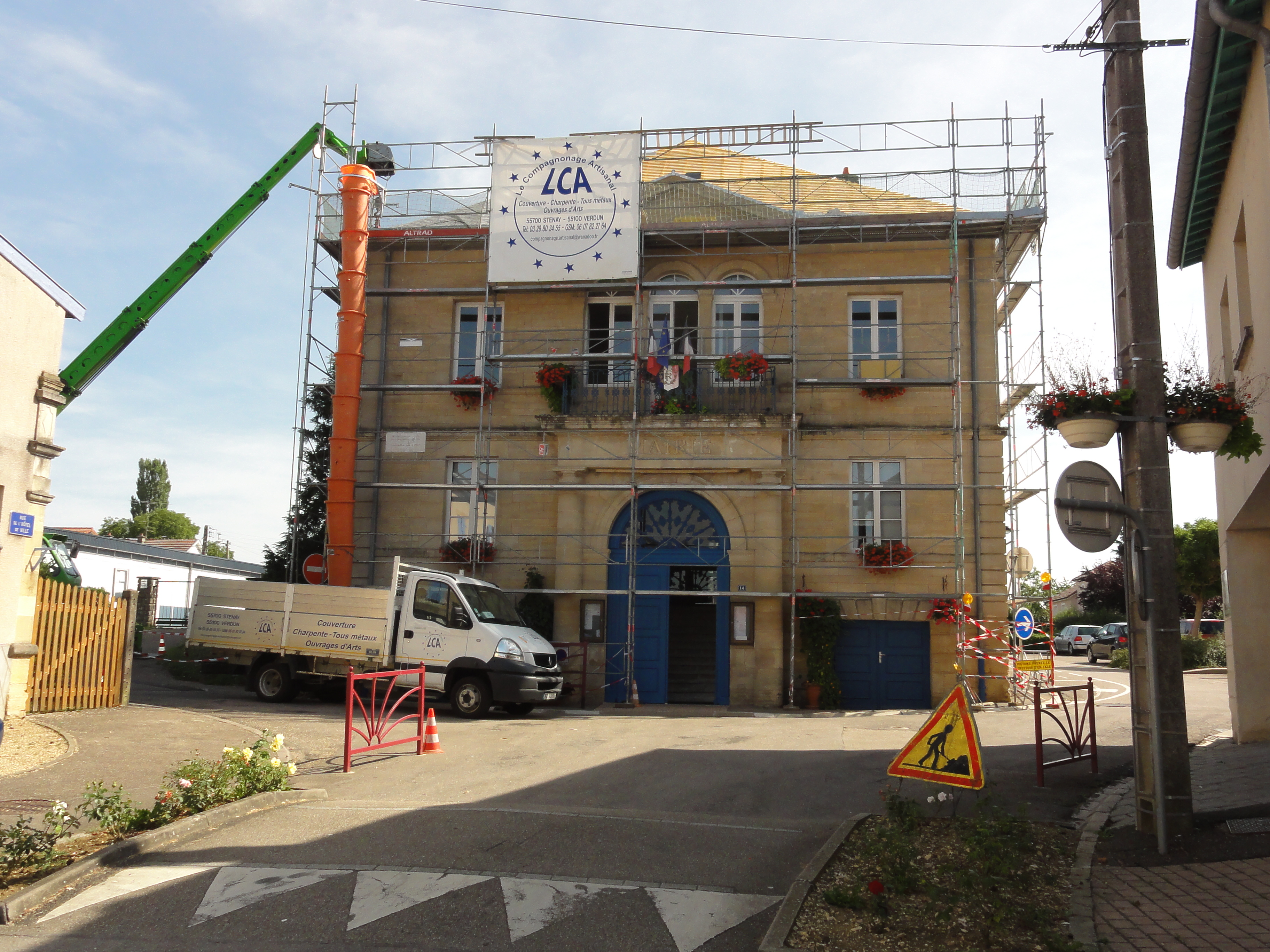 Spincourt (Meuse) mairie en renovation